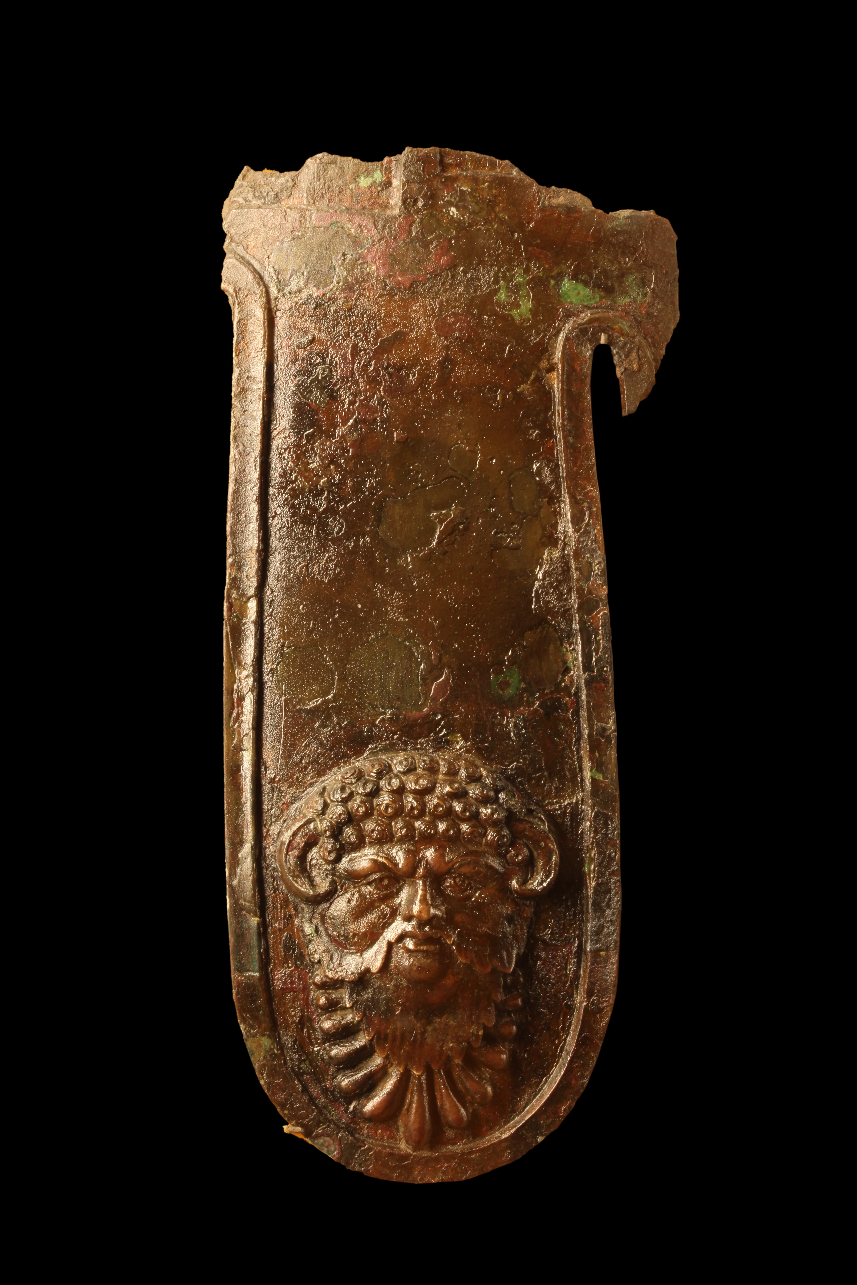 Pteruge featuring the face of Jupiter-Amon (from a statue ?)